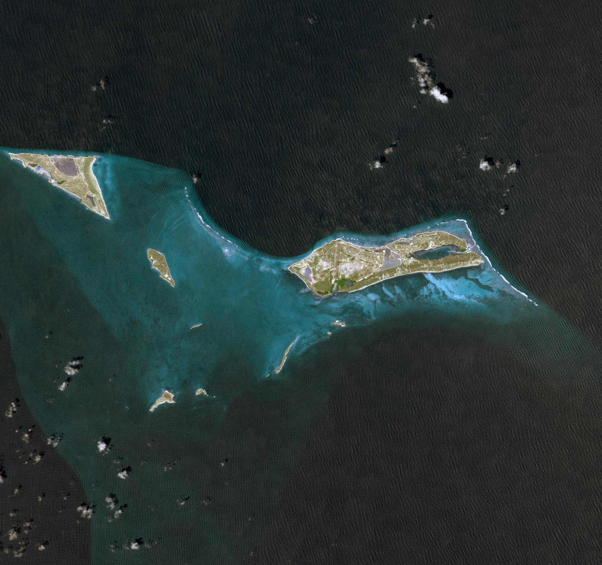 This is a view of Grand Turk Island as seen from space. it was taken by the NASA ASTER Satellite in 2009